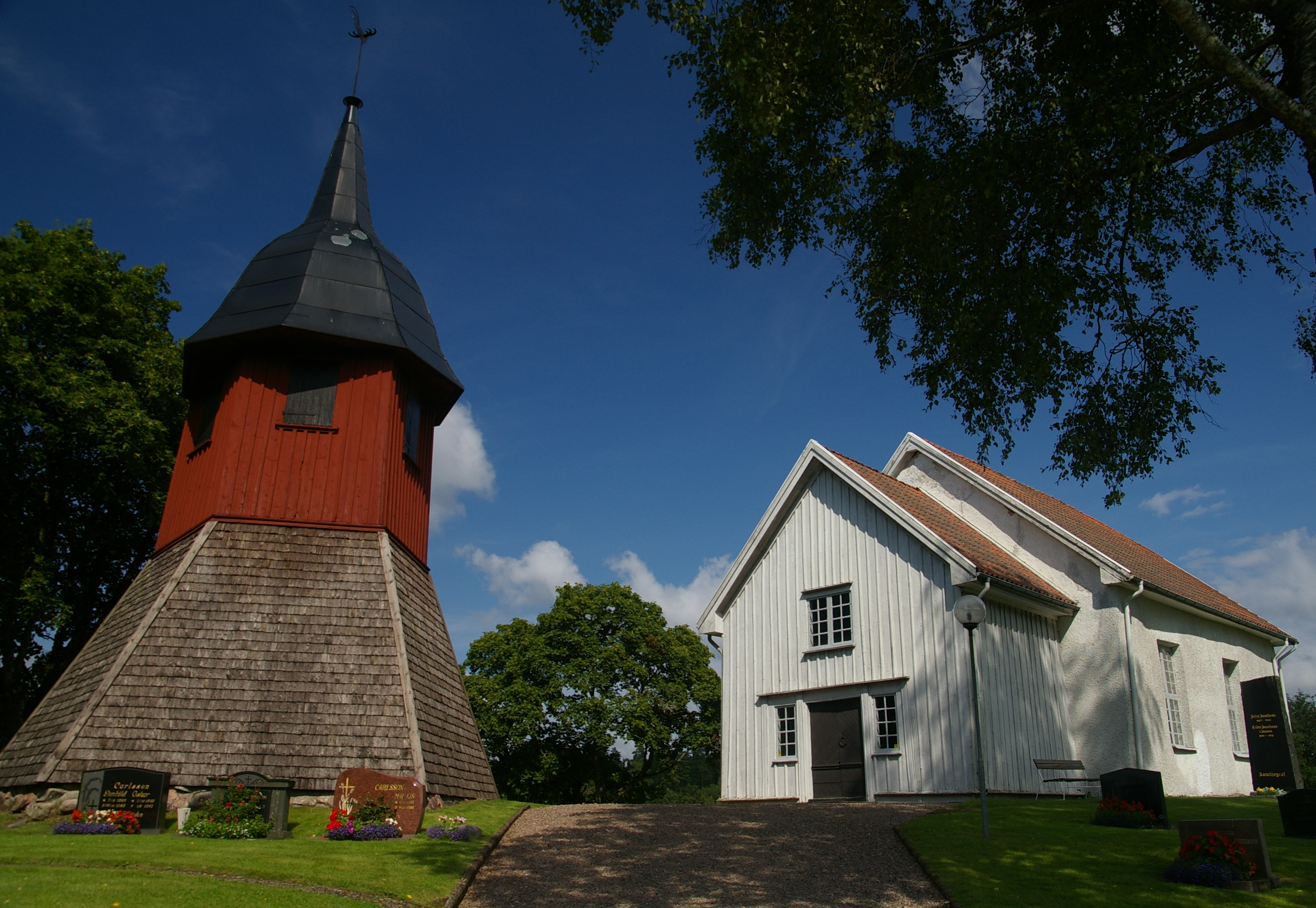 Solberga kyrka (Swedish:Church of Solberga) in Västergötland, Sweden.